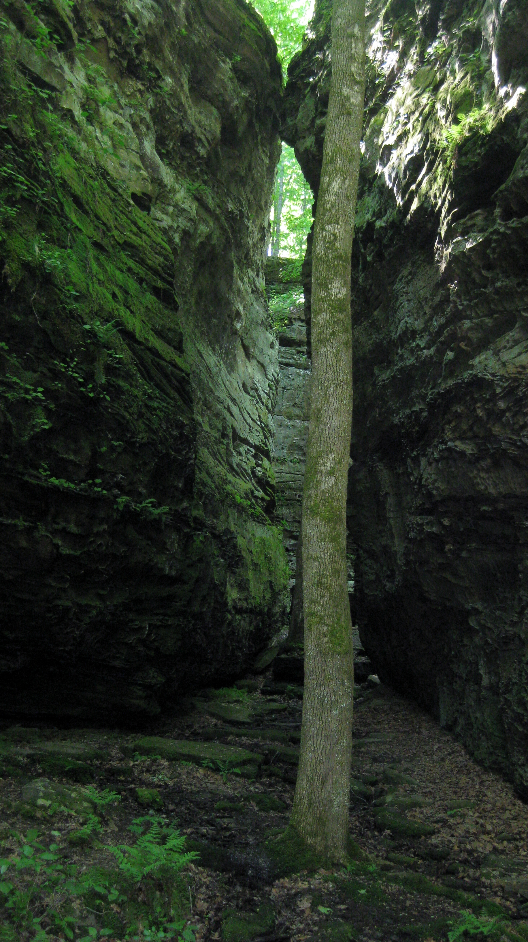 These cliffs are the reason a lot of people hike at Panther Den.